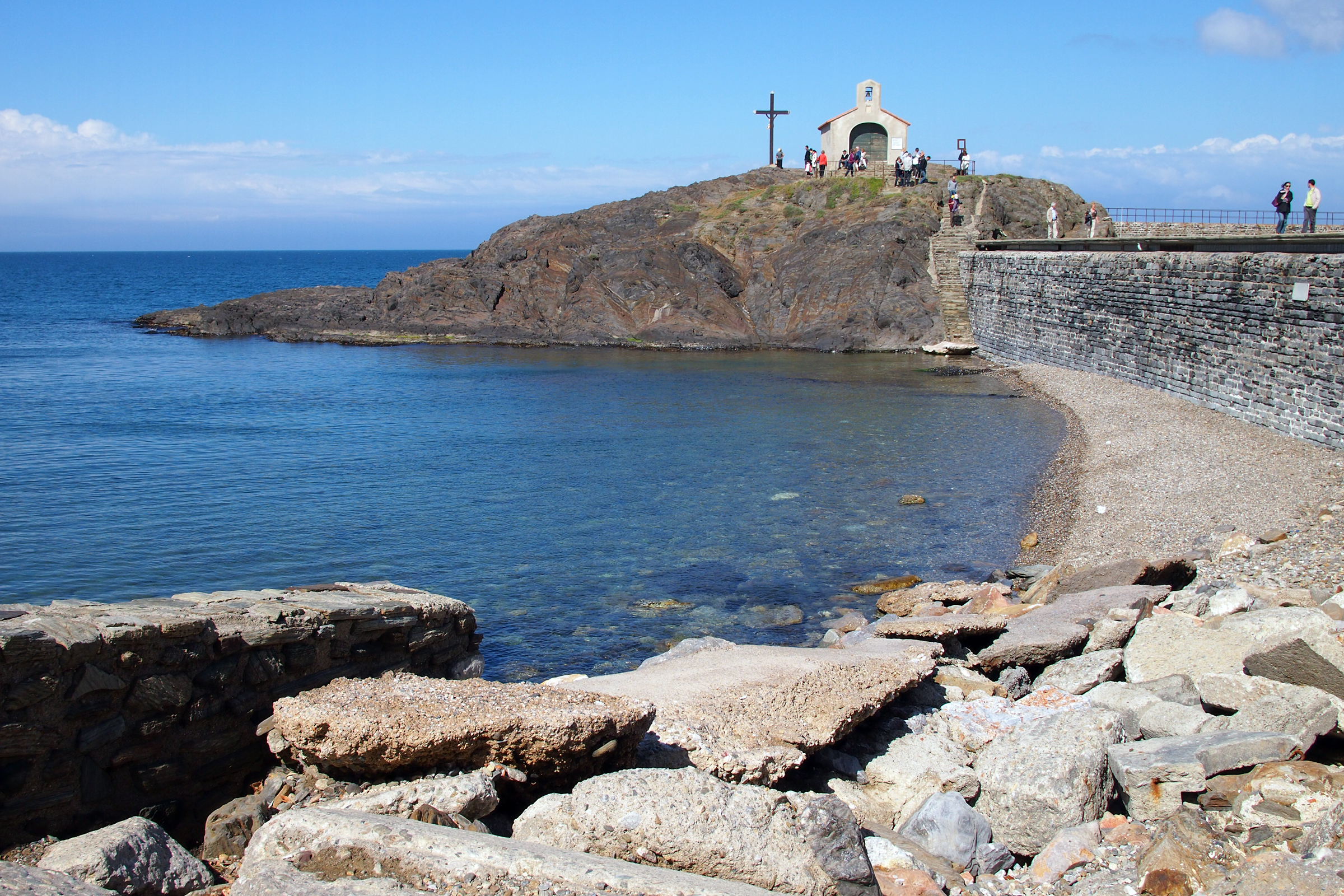 Collioure